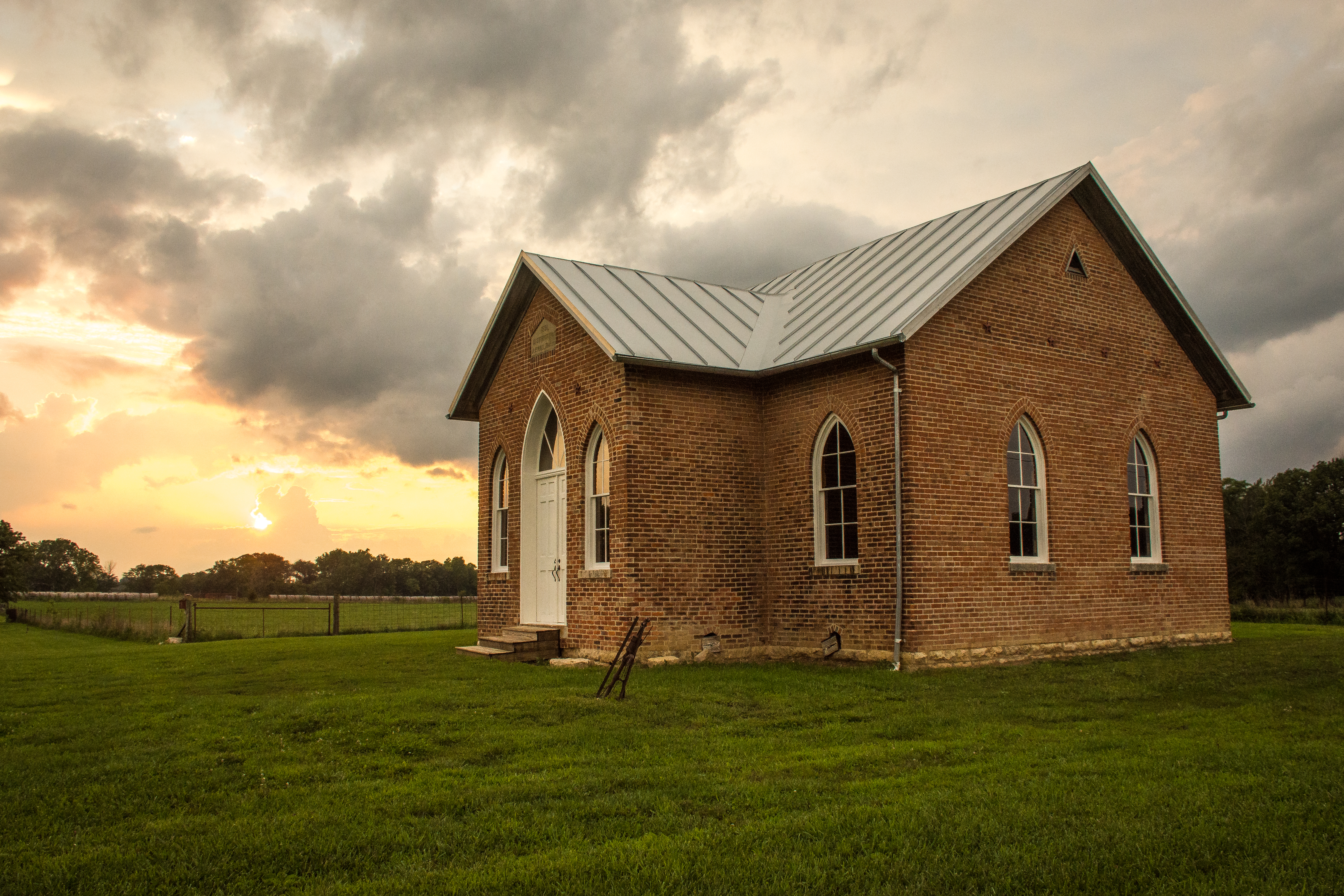 One Room Schoolhouse located at the intersection of County Roads 100 East and 700 North about a mile southeast of Deerfield in Randolph County Indiana. This school was built in 1891 and served as a school until it was closed in 1911 with the consolidation of one room schools into high schools that were made for grades of 1st to 12th, which was led by Lee Driver. In 1913 the school was sold to the farmer adjoining to the property, where it was turned into a Grainery. Since then it has changed hands to two different families. In 2014 A Non-Profit Organization was formed as The Friends of Ward Twsp District No. 5 Schoolhouse of Randolph County Indiana in which soon after the Original Plot of land was donated by the Thomas Sommer Family. This building was add to the United States National Register of Historic Buildings on Jun 12, 2017. As of Sept 2018 the Schoolhouse has had the roof and the Footer-Foundation replaced, point and tucked the exterior brick along with New Windows and Entrance-way that was duplicated piece by piece as the original were built in 1891. Our next step of Restoration would be the interior of the school in which it will be started in Dec 2018. The use for this One-Room Schoolhouse once restoration is completed would be an educational center for local Elementary School Students to have Historic Fieldtrips and live a school day in a One Room School House like it was in 1891